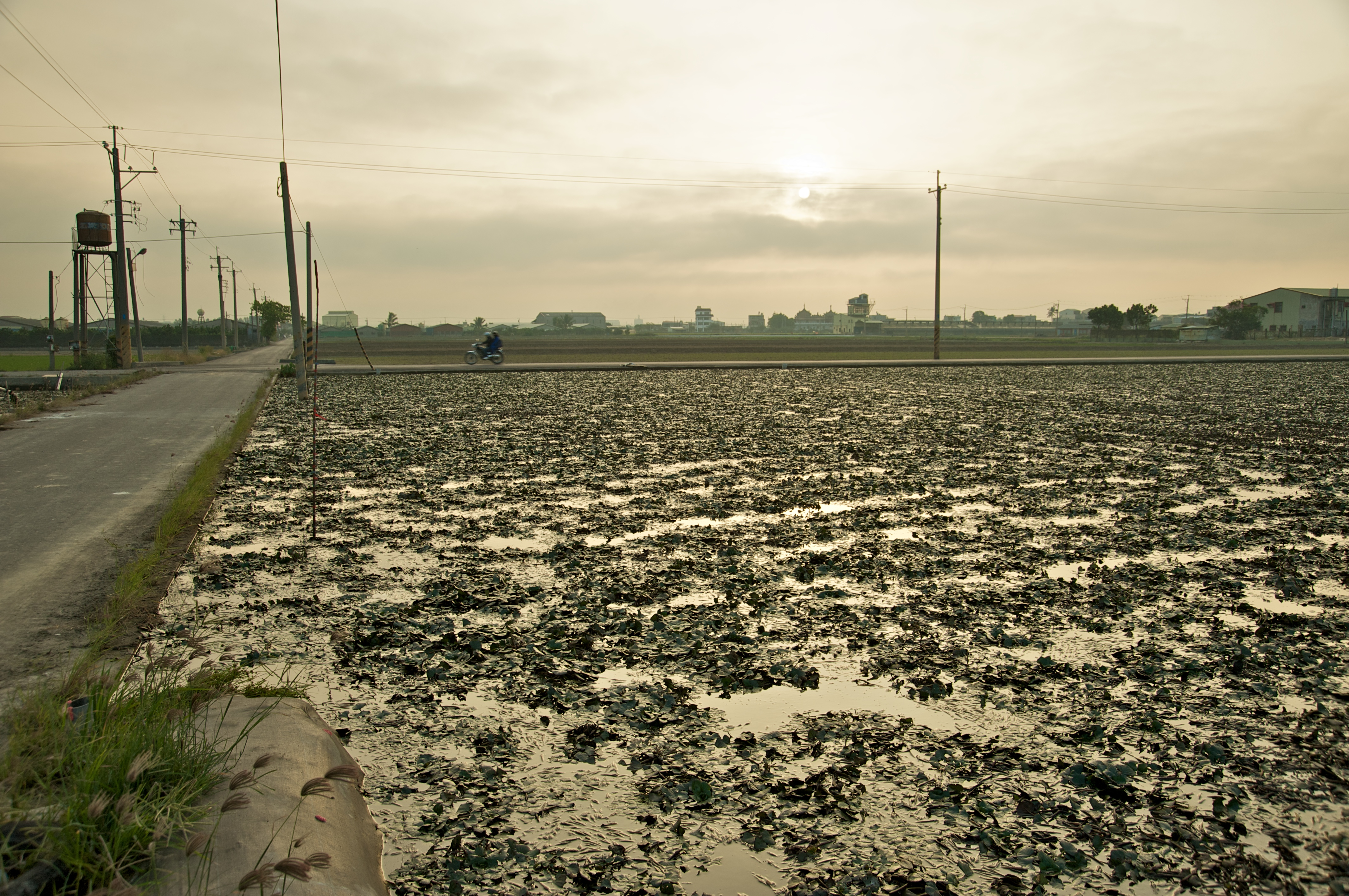 Water caltrop field in Tainan City, Taiwan